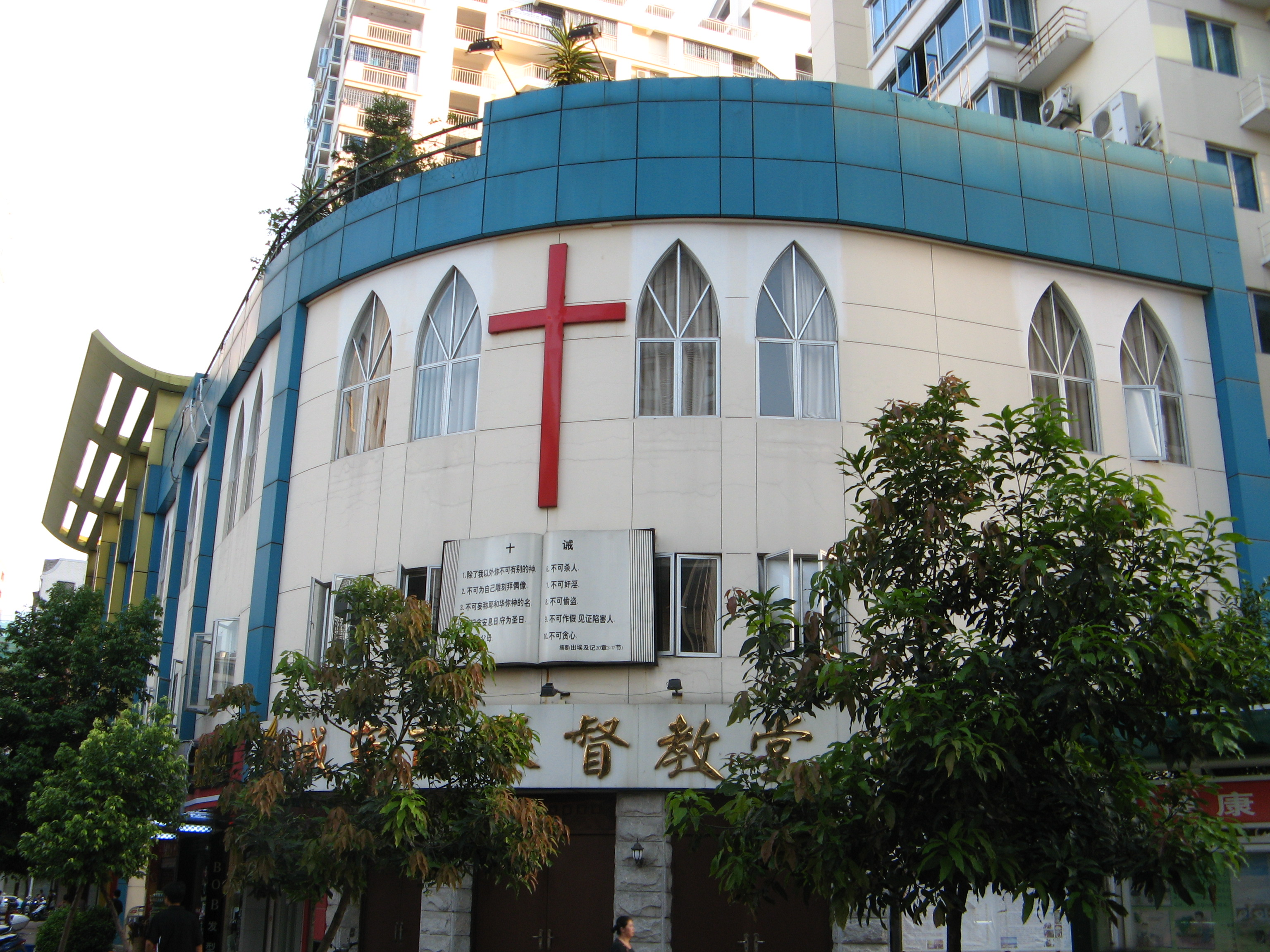 Chengshouqian Church, Fuzhou